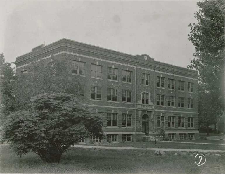 The Agricultural Building on the Campus of the Negro Agricultural and Technical College of North Carolina, now North Carolina Agricultural and Technical State University; 1926